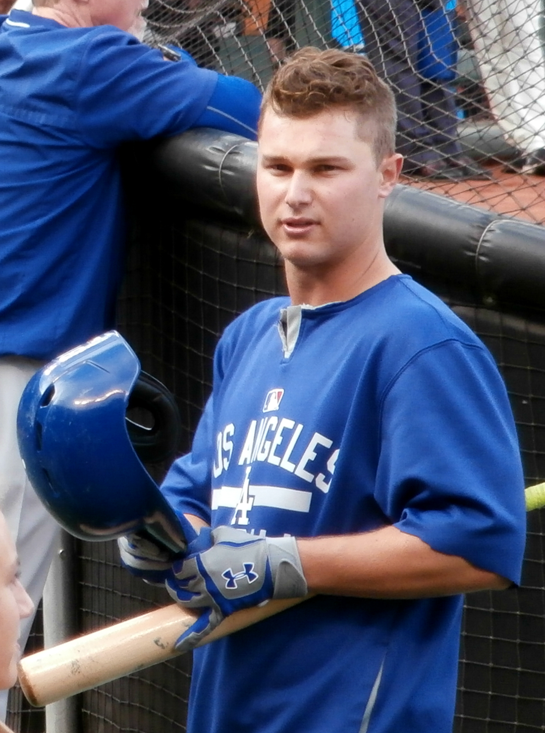 Joc Pederson of the Los Angeles Dodgers behind the batting cage at AT&T Park on May 20, 2015